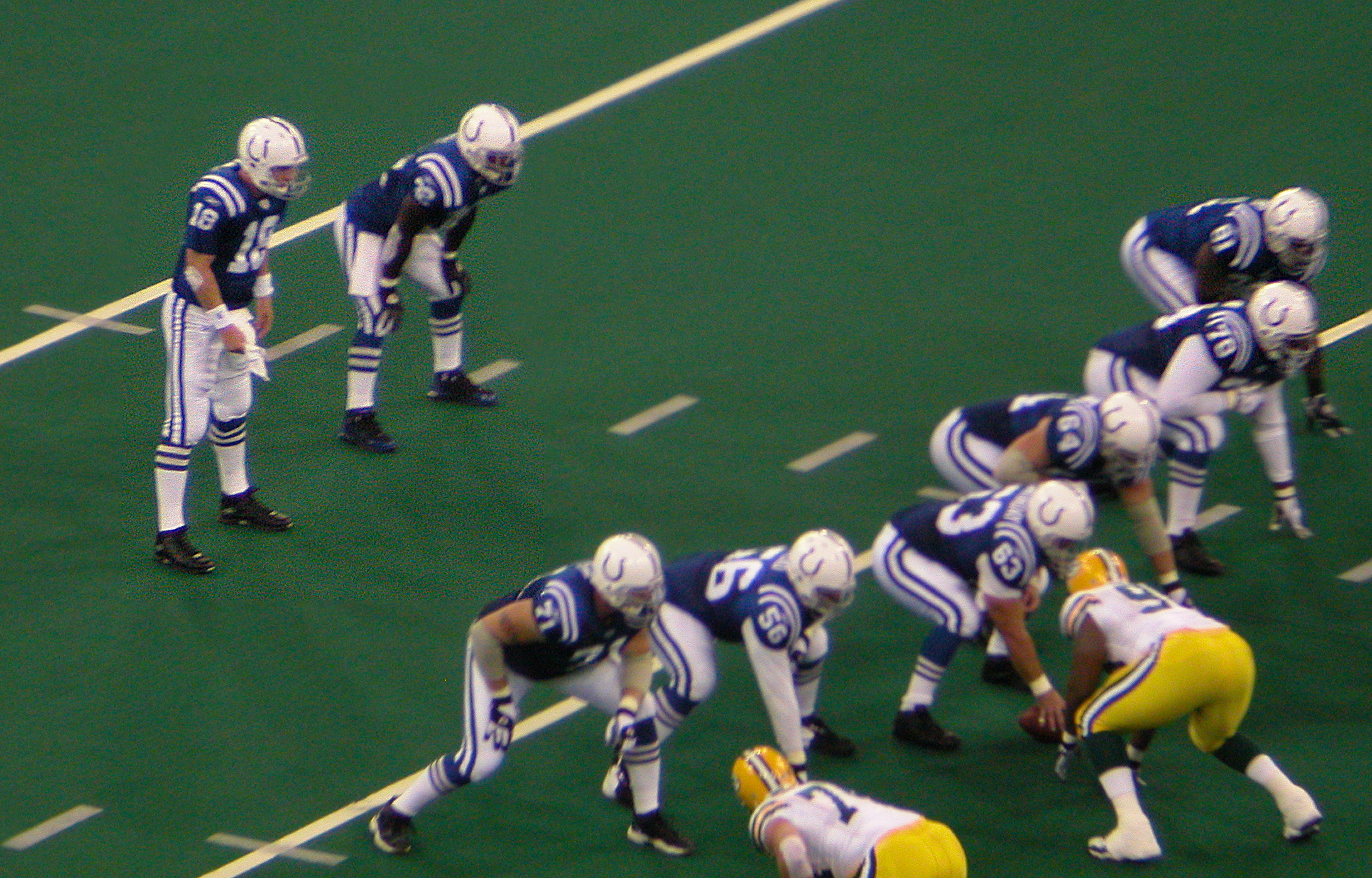 Manning and offense line up against the Packers in a 2004 regular season game.